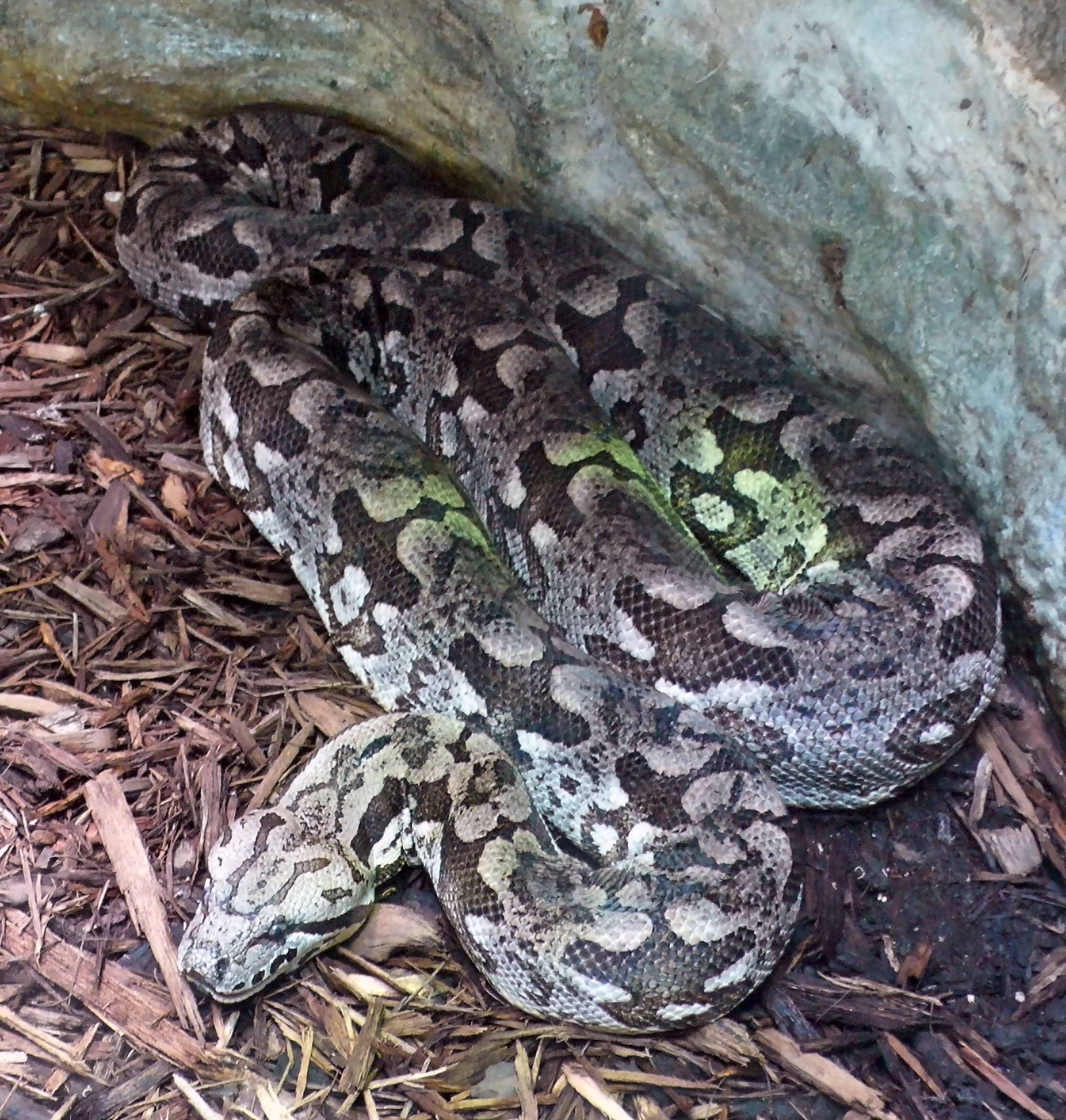 Dumeril's boa (Acrantophis dumerili)